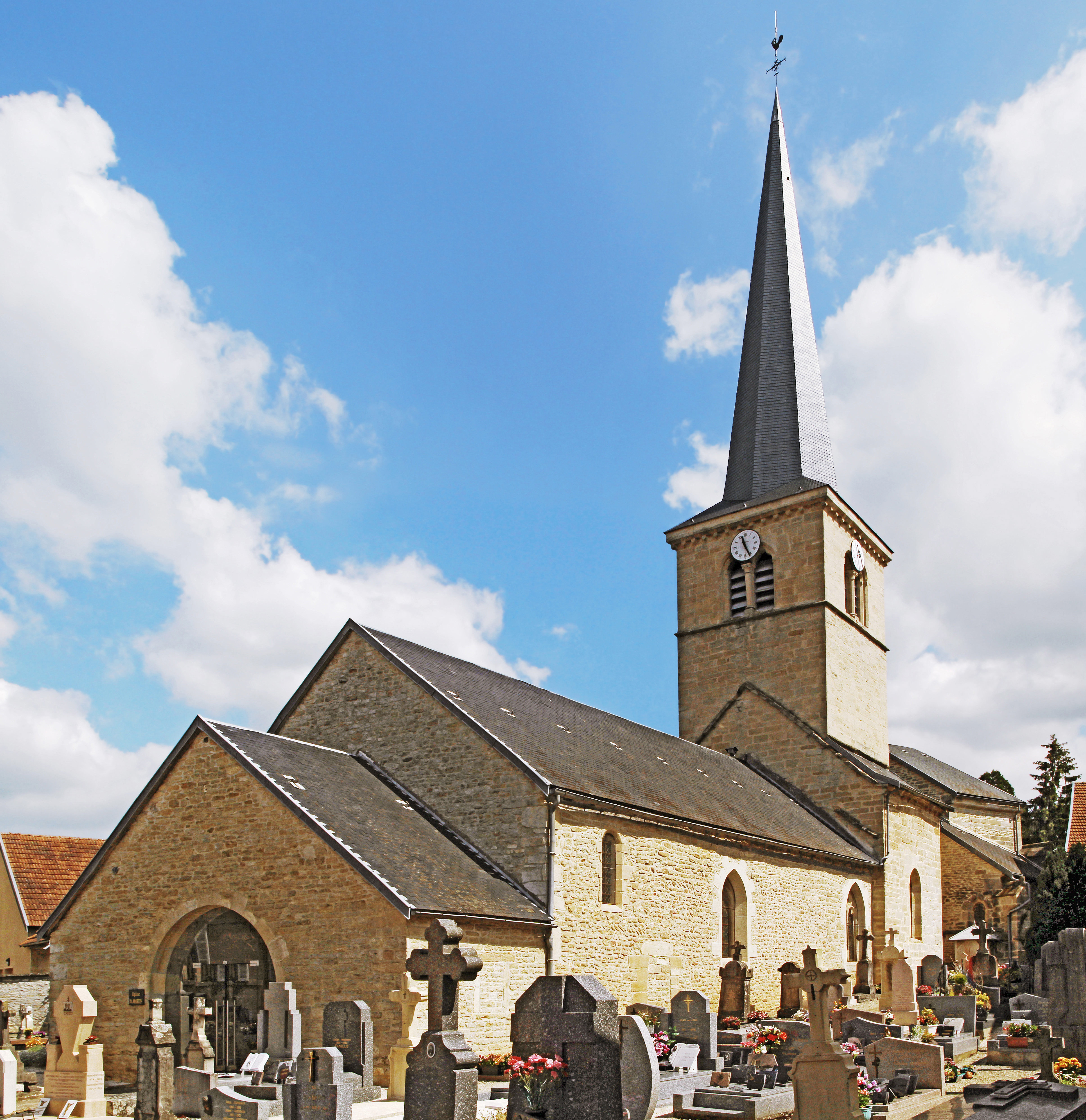 St Martin church in Villy-en-Auxois